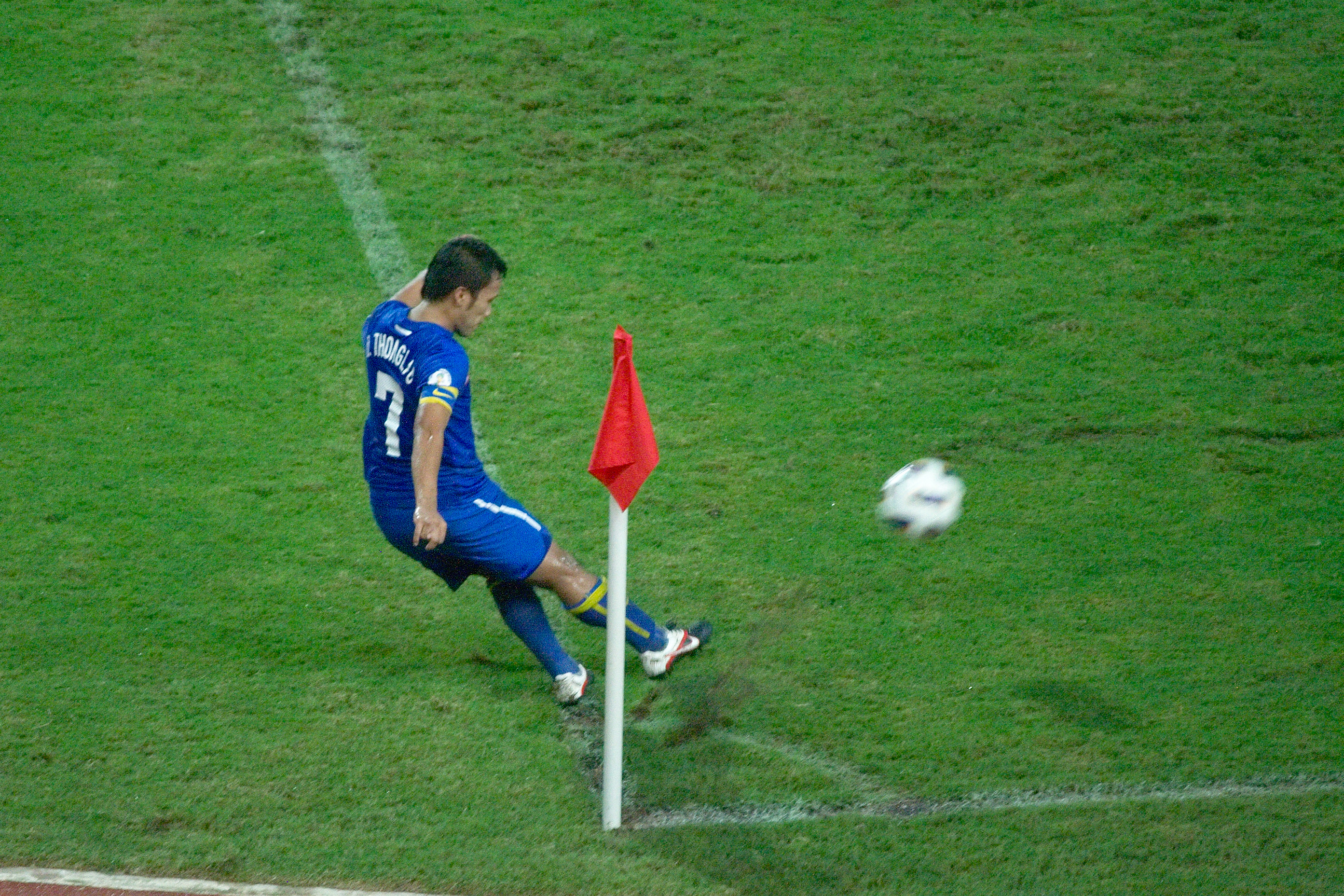 Datsakorn Thonglao took a corner for Thailand in the World Cup 2014 third round qualifying match against Oman at Rajamangala Stadium